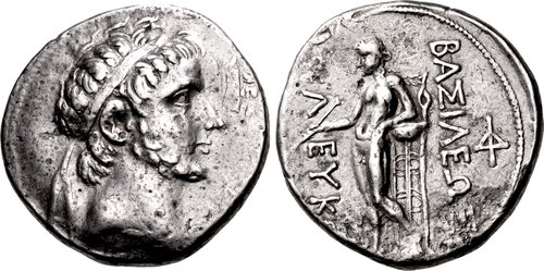 Tetradrachm. Nisibis mint. Diademed head right / Apollo Delphios. Rare Bearded Portrait of Seleukos II